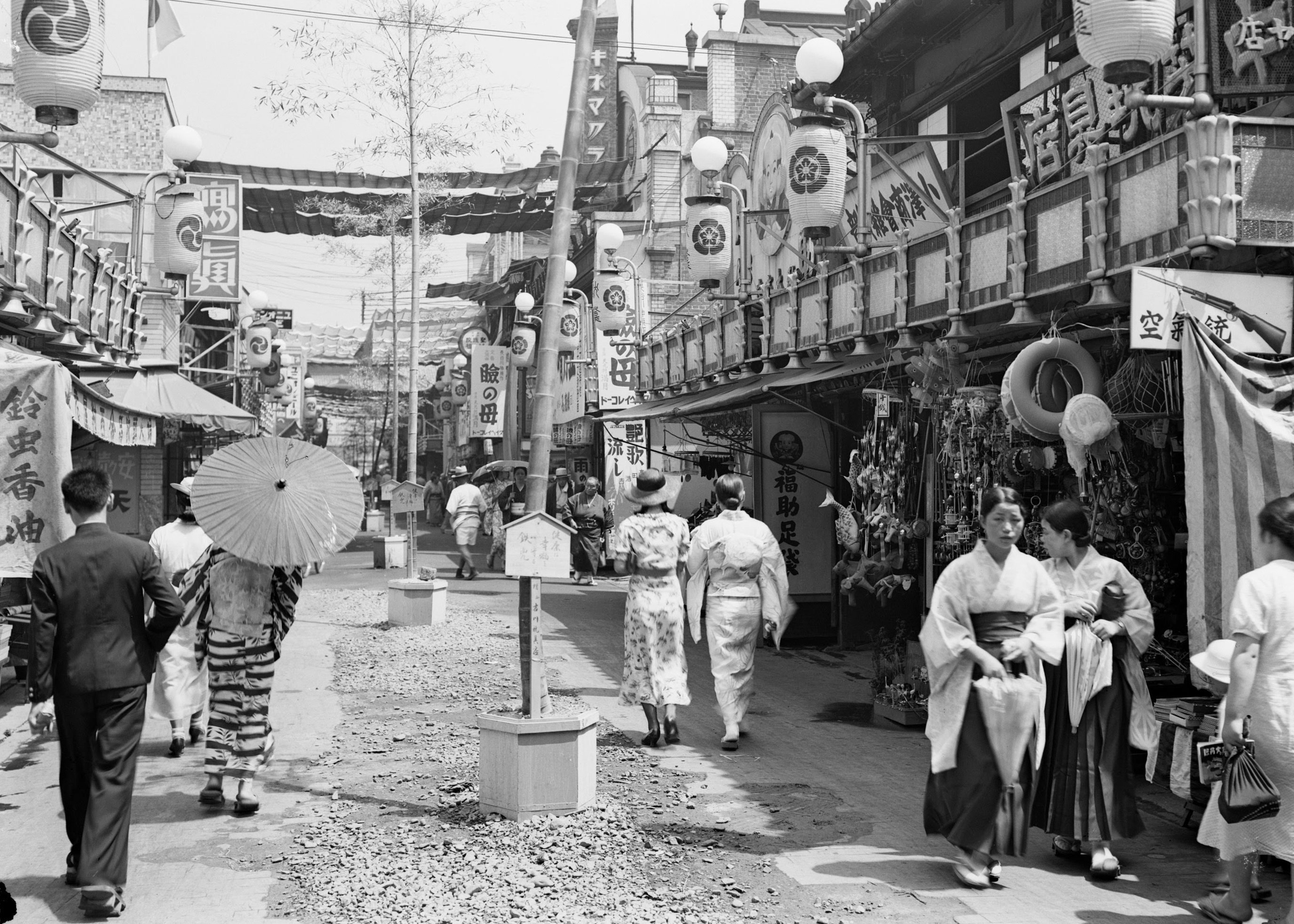 Shinkyogoku circa 1920